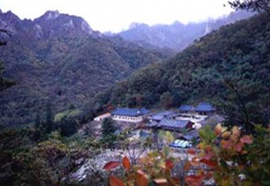 Shinhungsa Temple’s panorama (Autumn)